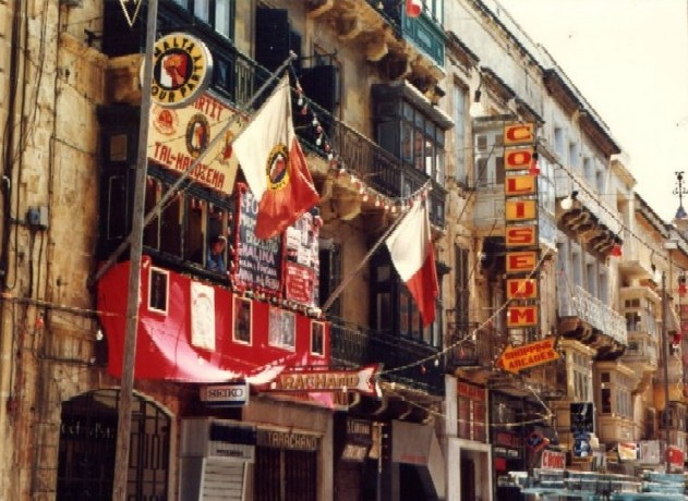 Valletta, Republic Street (the main office of the Maltese Labour Party) Valletta, Republic Street (Parteibüro der Maltese Labour Party) Valletta, Republic Street (ústředí strany Maltese Labour Party)